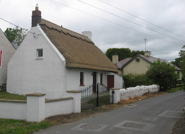 Thatched cottage at Baltray, Co. Louth. Recently restored cottage in former fishing village.